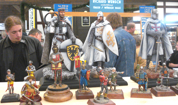 Kulmbach tin figure fair